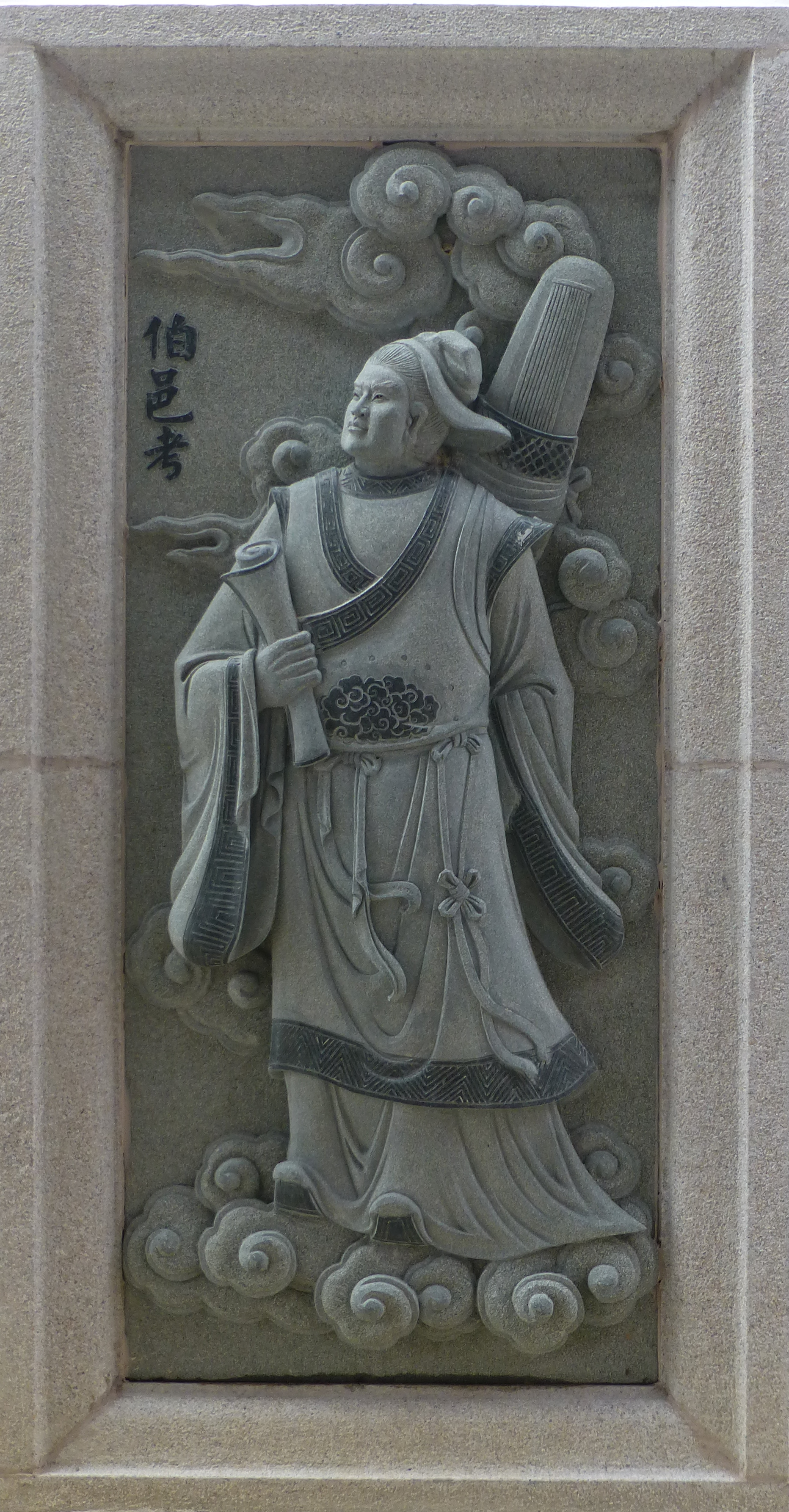 046 Bo yi kao, Investiture of the Gods at Ping Sien Si, Pasir Panjang, Perak, Malaysia Photograph from the Ping Sien Si Temple in Perak, Malaysia taken by Anandajoti.